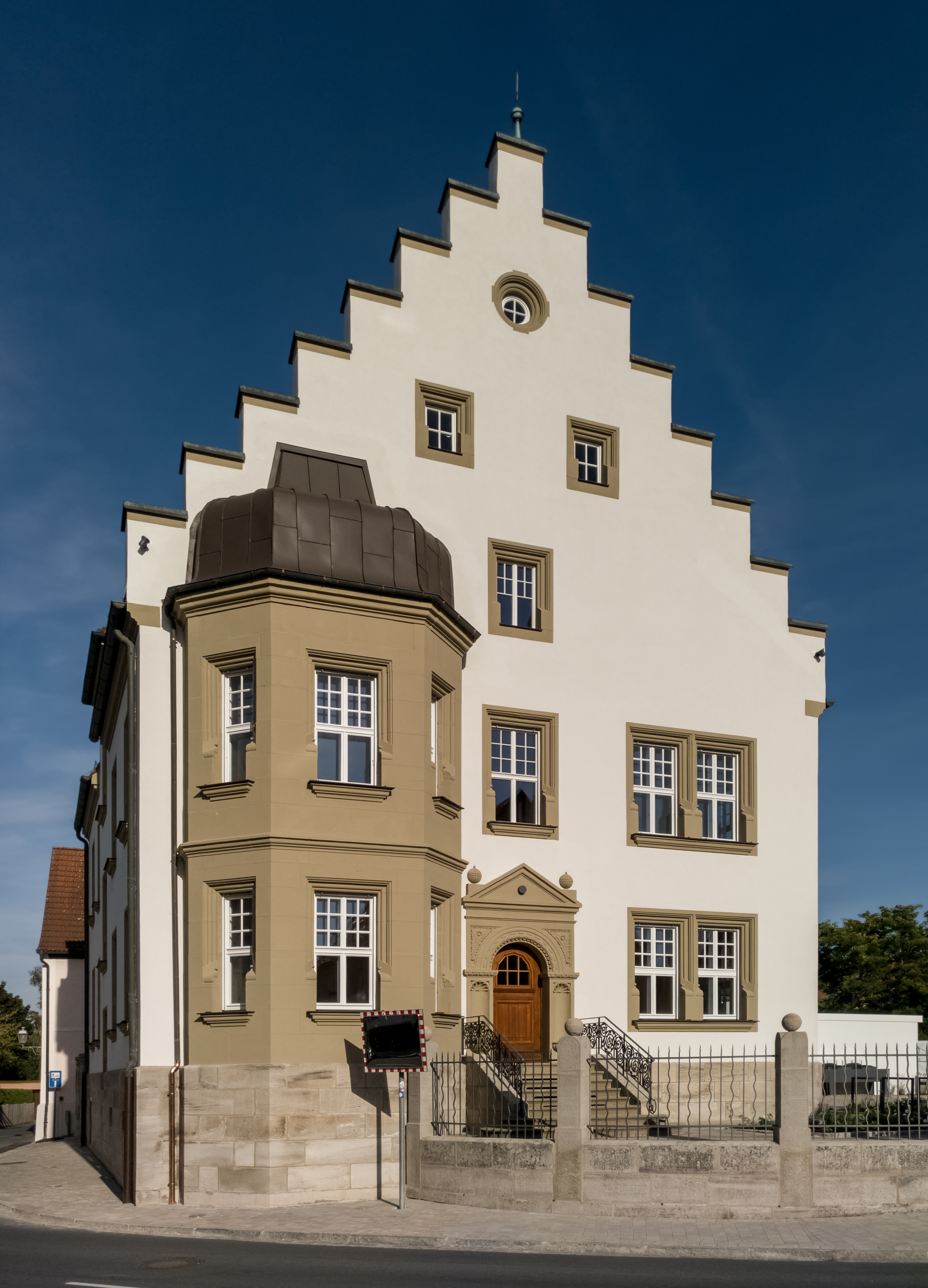 Rectory in Burgebrach